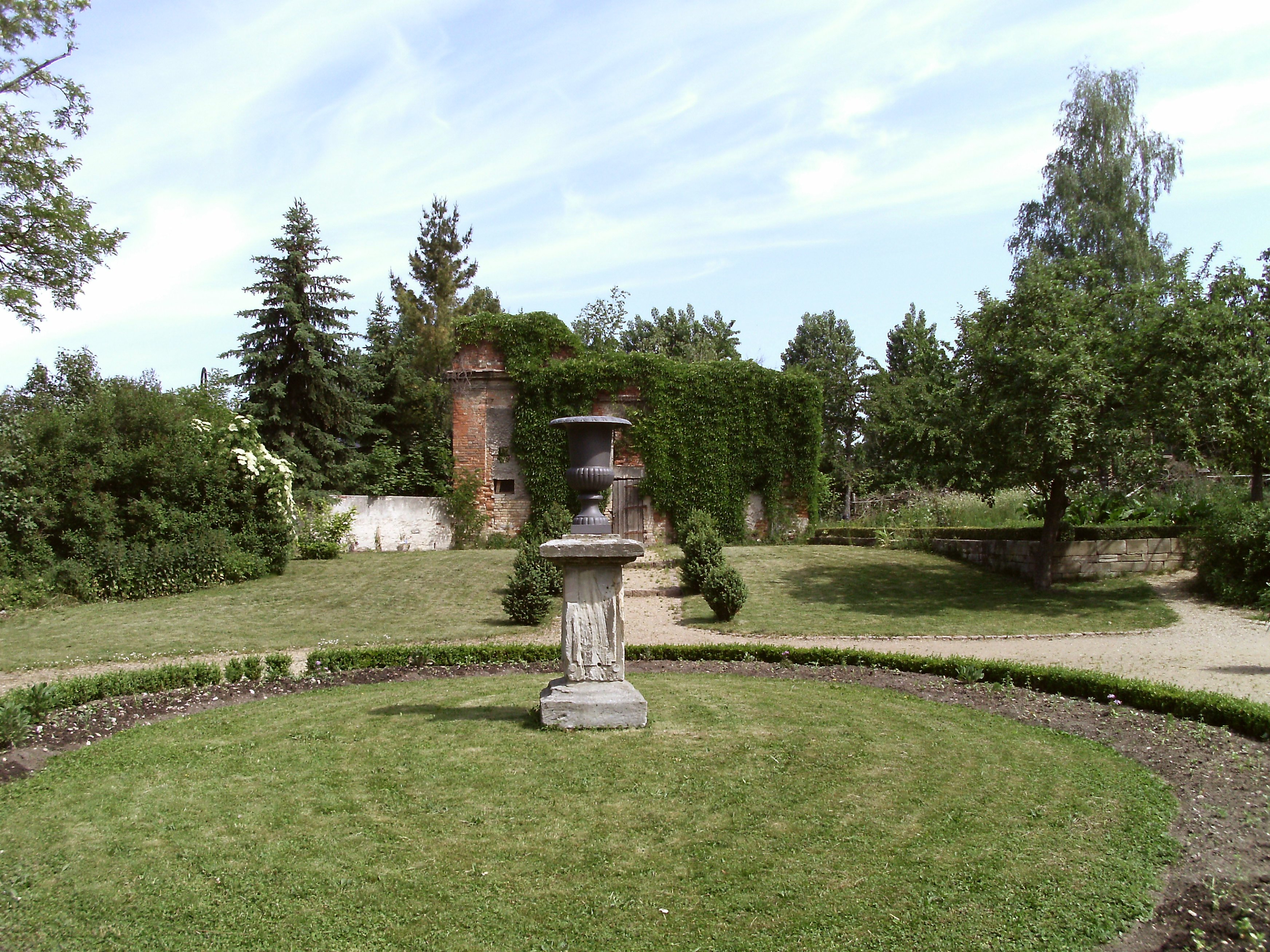 Vase in Dieskau Gardens near the castle (Kabelsketal, district of Saalekreis, Saxony-Anhalt)